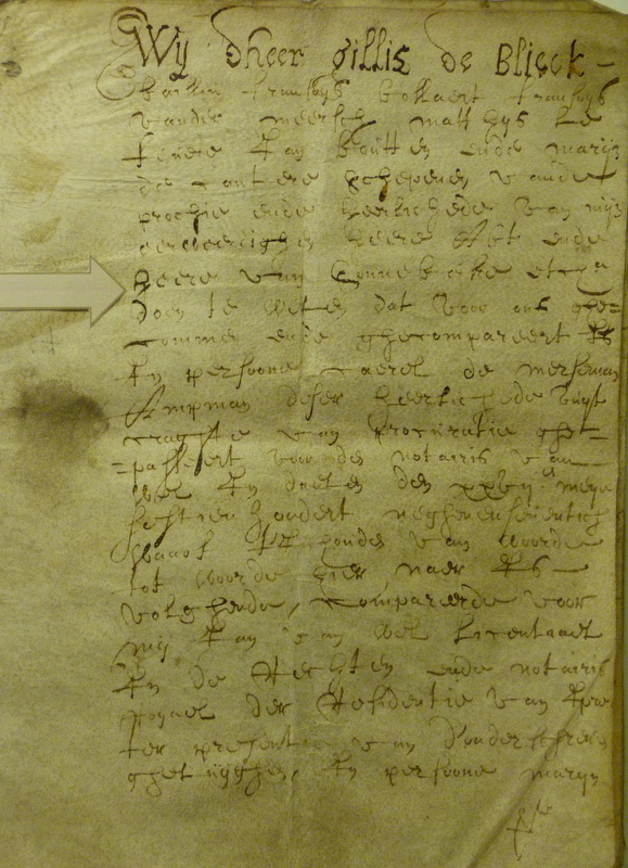 Akte met vermelding abt van Zonnebeke als Heer van Zonnebeke (1679)(Kasteel van Zonnebeke)